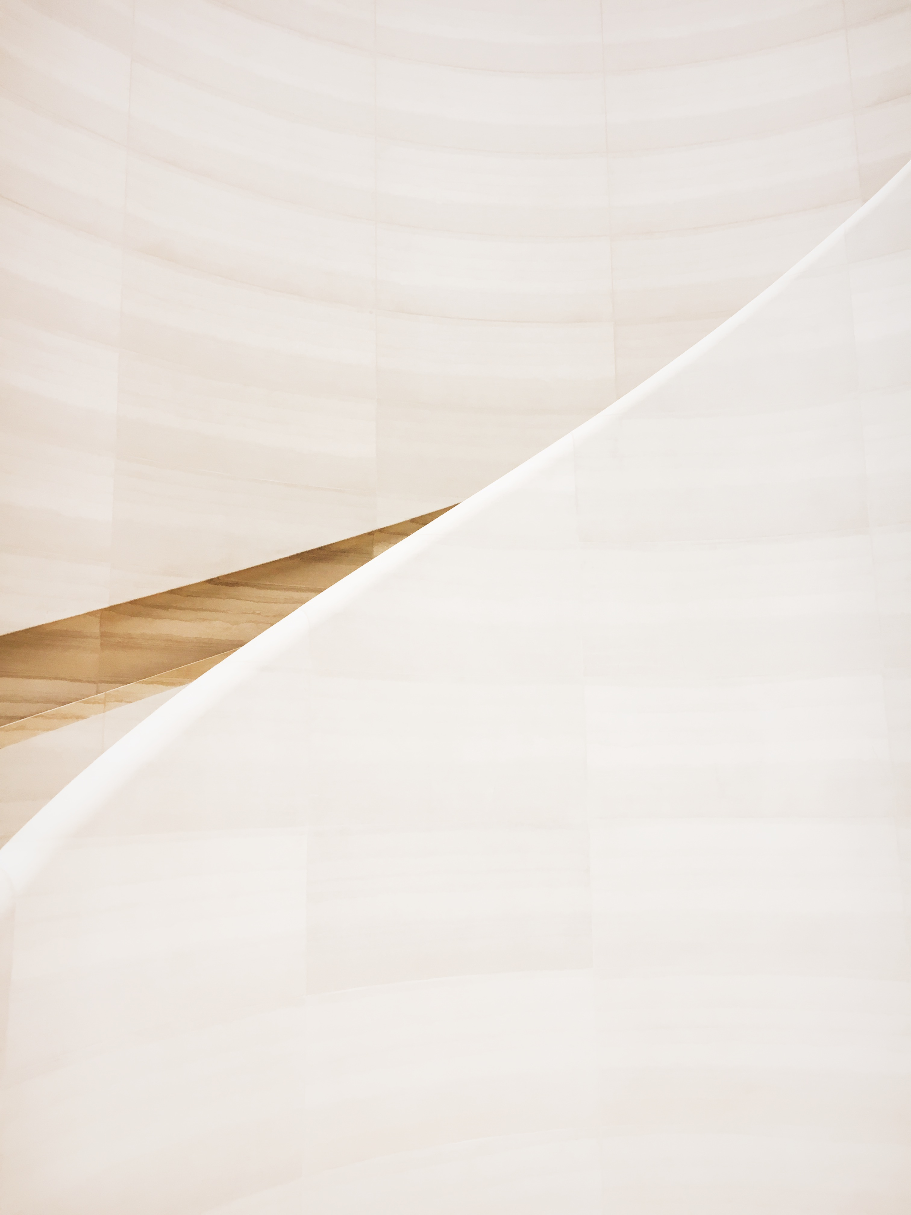 Orchard, Singapore